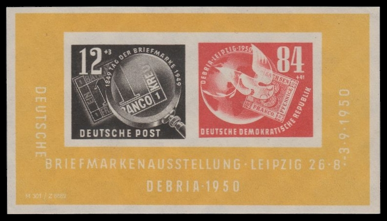 Ausgabepreis: 140 Pfennig First Day of Issue / Erstausgabetag: 26. August 1950 Auflage: 750.000 Entwurf: Gravenhorst Druckverfahren: Offsetdruck Michel-Katalog-Nr: Ländercode-MiNr: Block 7 Licensing This file is most likely NOT in the public domain. It has been marked for review, and will be deleted in due course if the review does not find it to be in the public domain.This file was previously considered to be in the public domain as a German stamp; it is possible that it is in the public domain for other reasons, in which case a new rationale will be applied as part of the review process. See below for the previous rationale. Previous public domain rationale, no longer applicable This stamp is in the public domain in Germany because it was released by the postal administration of the German Democratic Republic or the Soviet occupation zone (Deutschen Post der DDR) whose legal successor is the Federal Republic of Germany. Thus it is an official work according to German copyright law (§ 5 Abs. 1 UrhG).